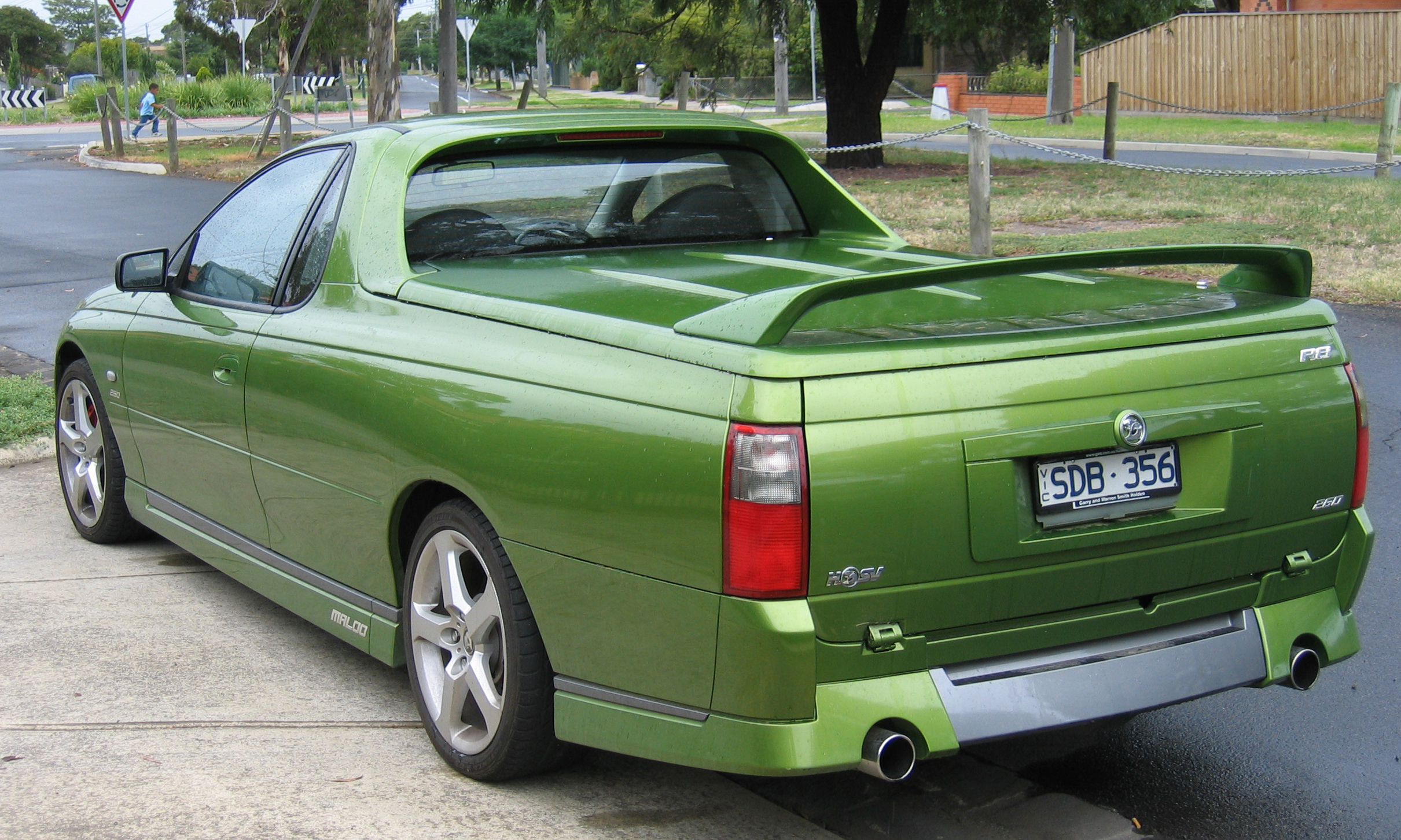 2002-2003 HSV Maloo (Y Series) R8 utility, photographed in Victoria, Australia.